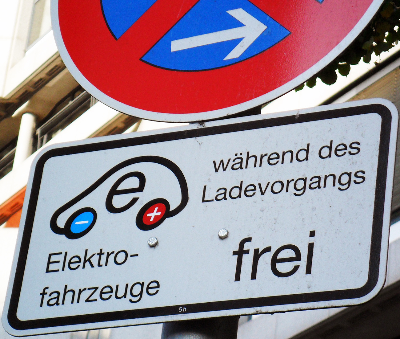 No parking/special use sign: “Free for charging Electric Vehicles” (charging station at Ernst-Reuter-Platz in Berlin)